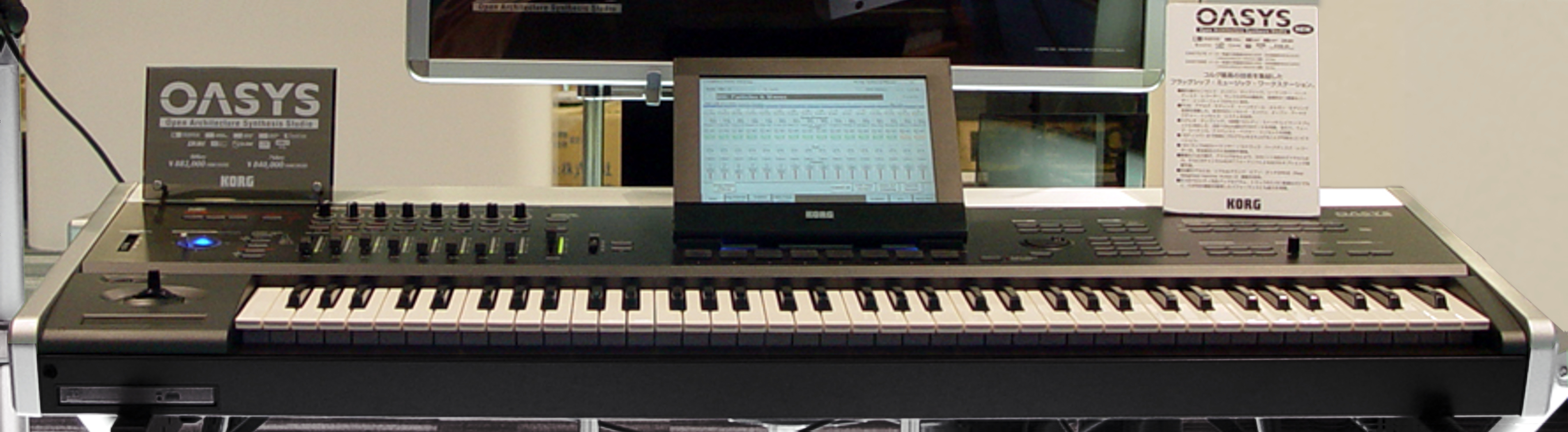 Korg OASYS synthesizer on display in the ground floor museum at their Tokyo office.